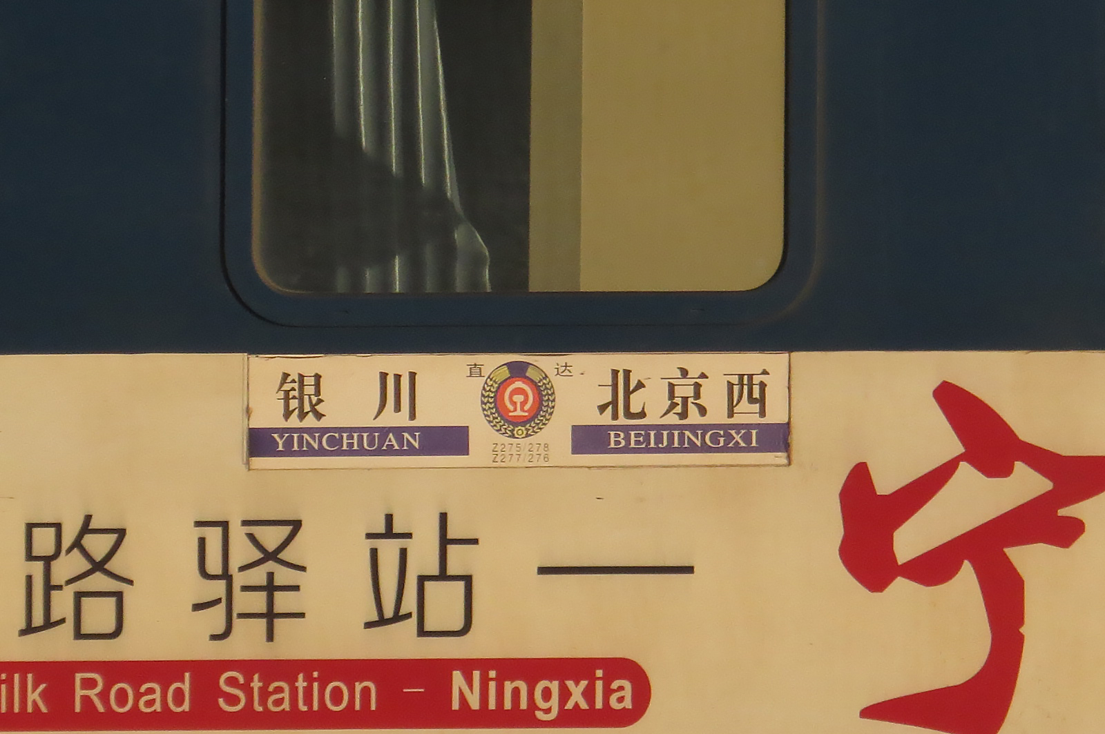 Silk Road Station - Ningxia.